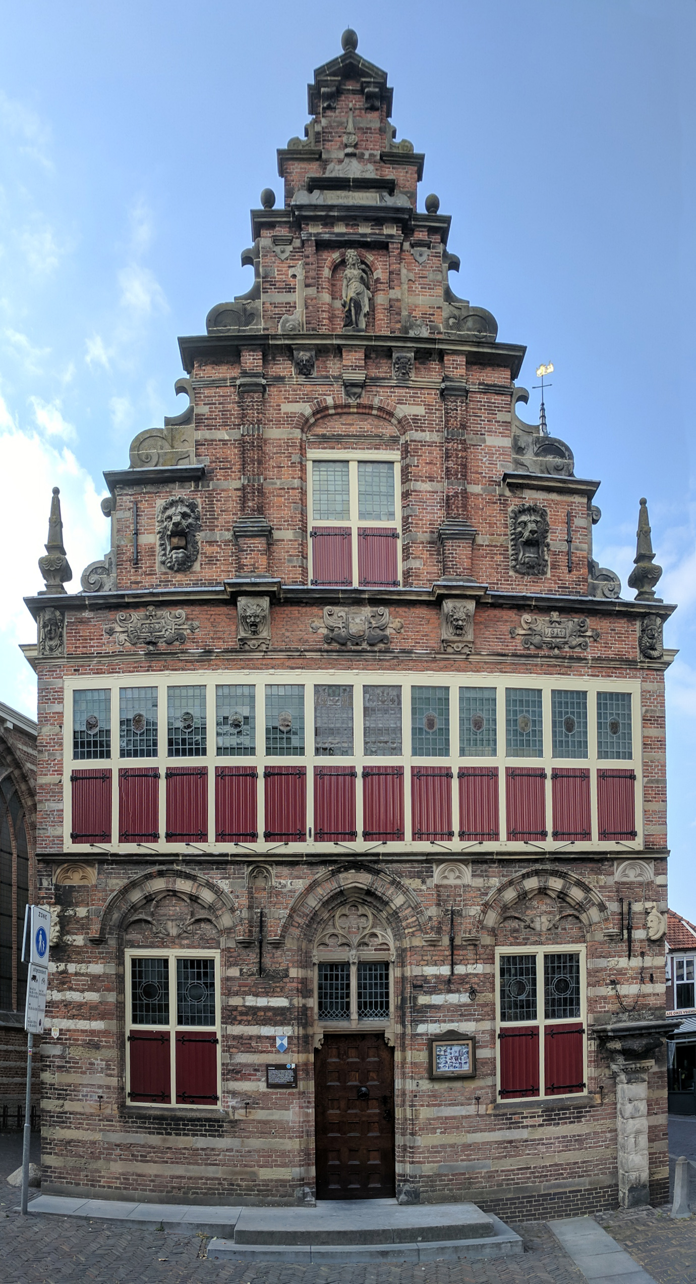 The old stadhaus in Woerden, Netherlands.